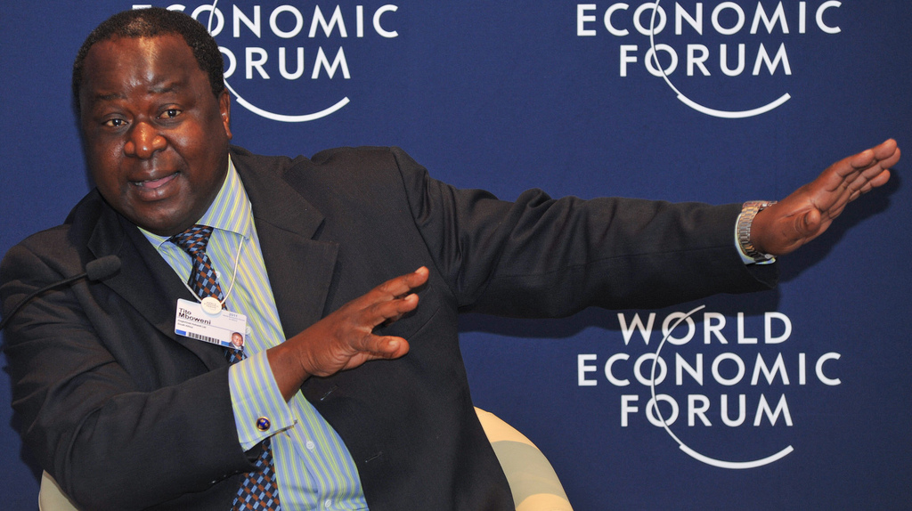 CAPE TOWN\SOUTH AFRICA, 04MAY11 - Tito Mboweni, Chairman, AngloGold Ashanti, south Africa, during the Lessons from the New Champions session at the World Economic Forum on Africa 2011 held in Cape Town, South Africa, 4-6 May 2011. Copyright (cc-by-sa) © World Economic Forum ( Eric Miller